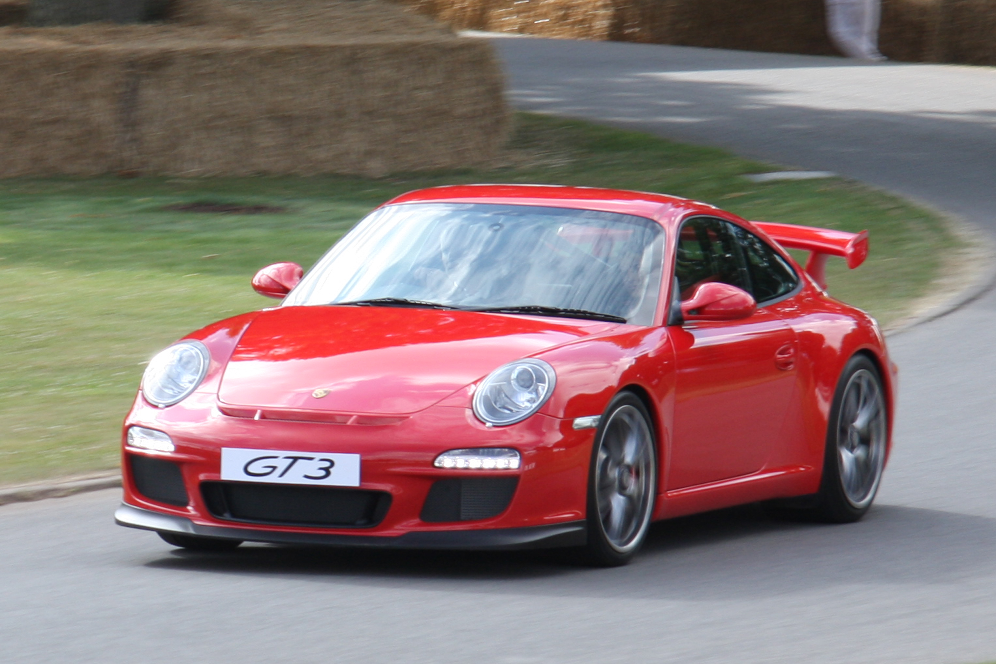 Porsche 997 GT3 (MY 2010) at the 2009 Goodwood Festival of SpeedPorsche 911 GT3